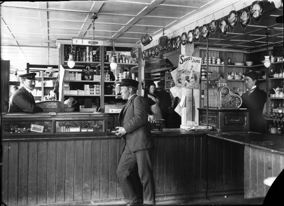 Inside Thor Jensens Goodthab store in around 1910 in Reykjavík, Iceland. In Austurstræti 16, the house has since been destroyed in a fire.